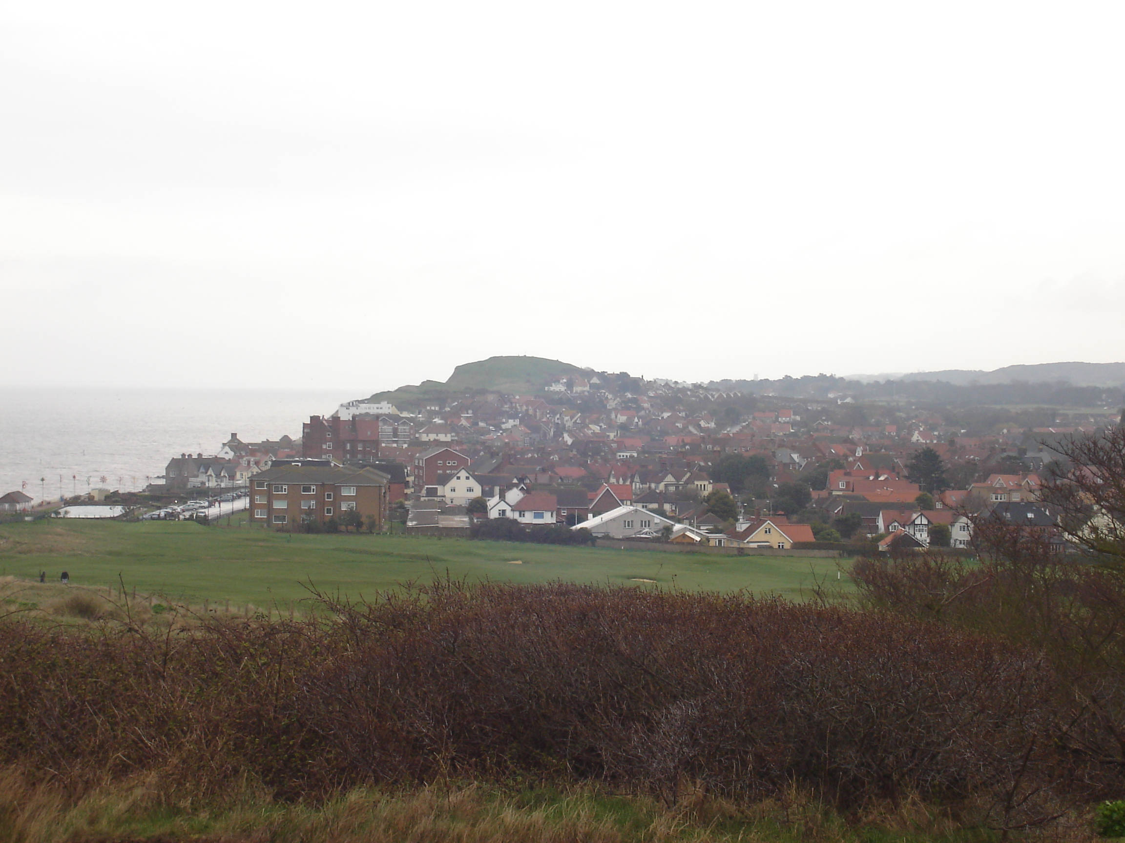 The view of Sheringham, Norfolk from the west. The Beeston Bump can be seen in the background of the photo.